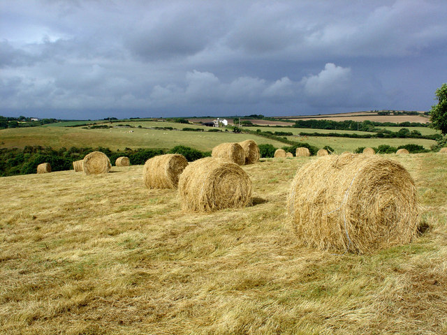 Summer Storm over Rooke Farm. This field is at the junction of roads leading from Trewethern to Trevine and Chapel Amble. Looking WSW the white building just below the horizon in the centre is Smeathers Farm at SW990763.